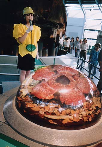 It is the Rafflesia which bloomed in a garden of the Osaka flower Expo 90.